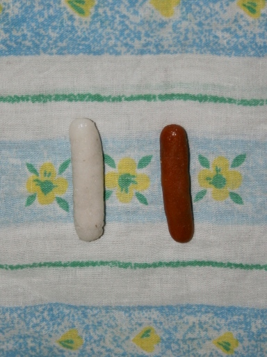 Two samples of the fresh-made rocket candy fuel. Left is the basic mixture, and the right is a composition with 1% of iron oxide (III)